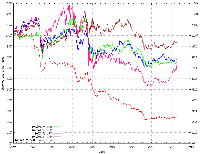 Turkish lira exchange rate to USD, EUR, JPY, GBP and Ottoman lira since 2005